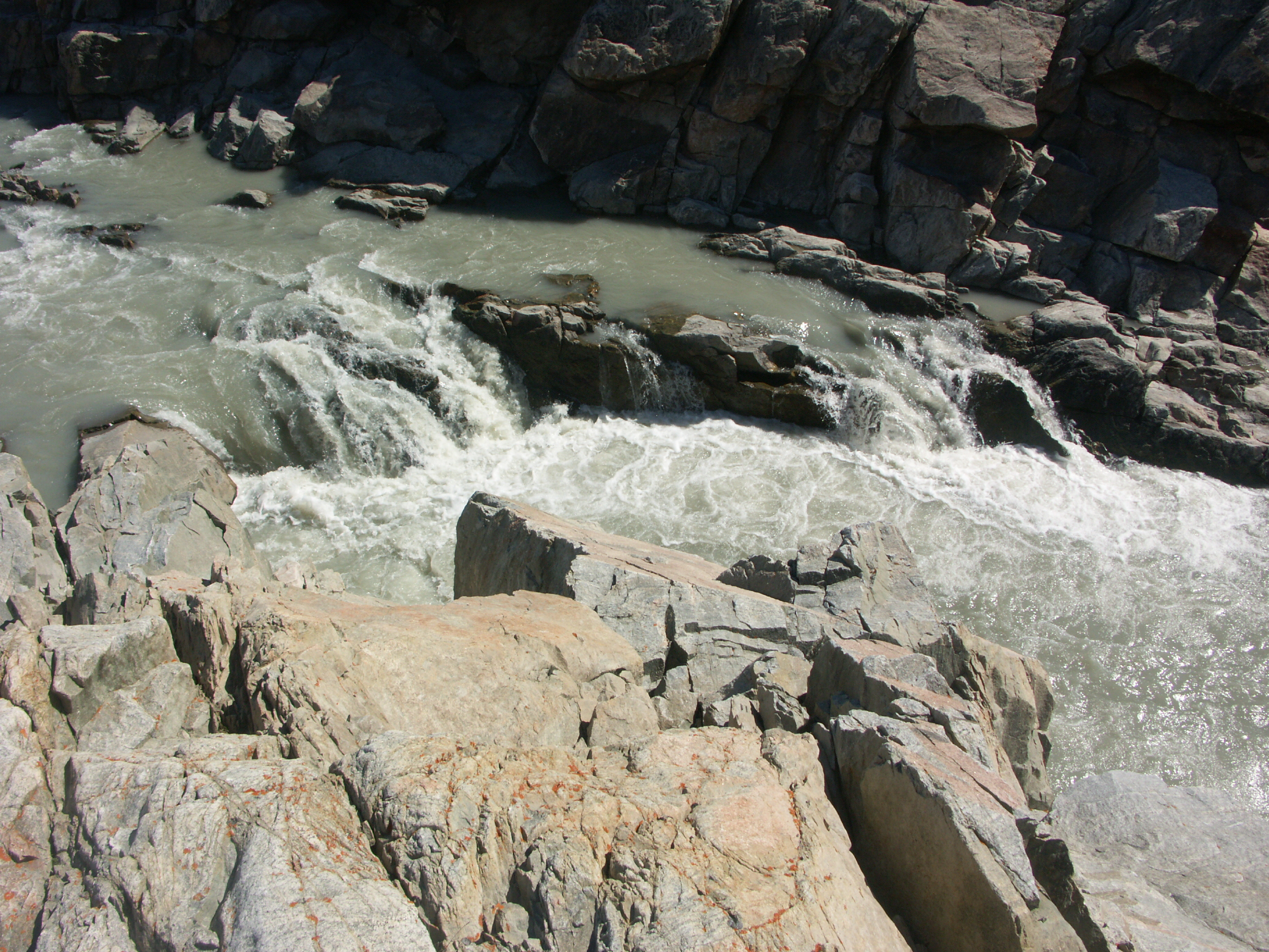 Canyon cascades, highlands of Isunngua, Greenland